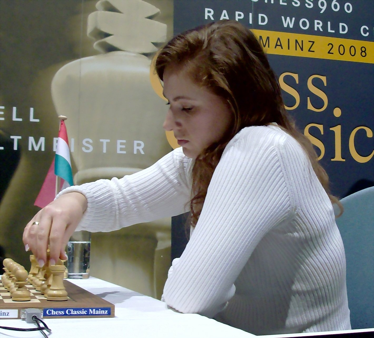 Judit Polgar, chess grandmaster from Hungary, at Chess Classic Mainz 2008, July 28- Aug 3rd